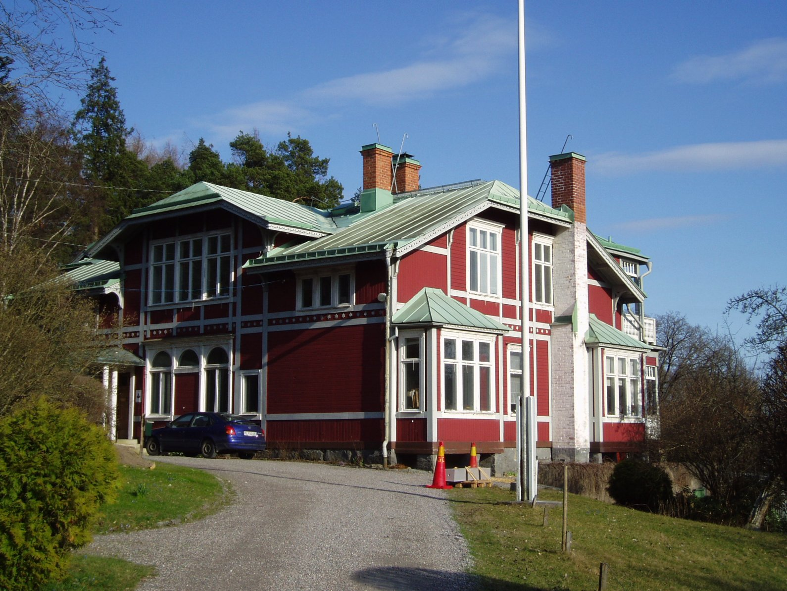 Saltskog gård, museum at Södertälje, Sweden